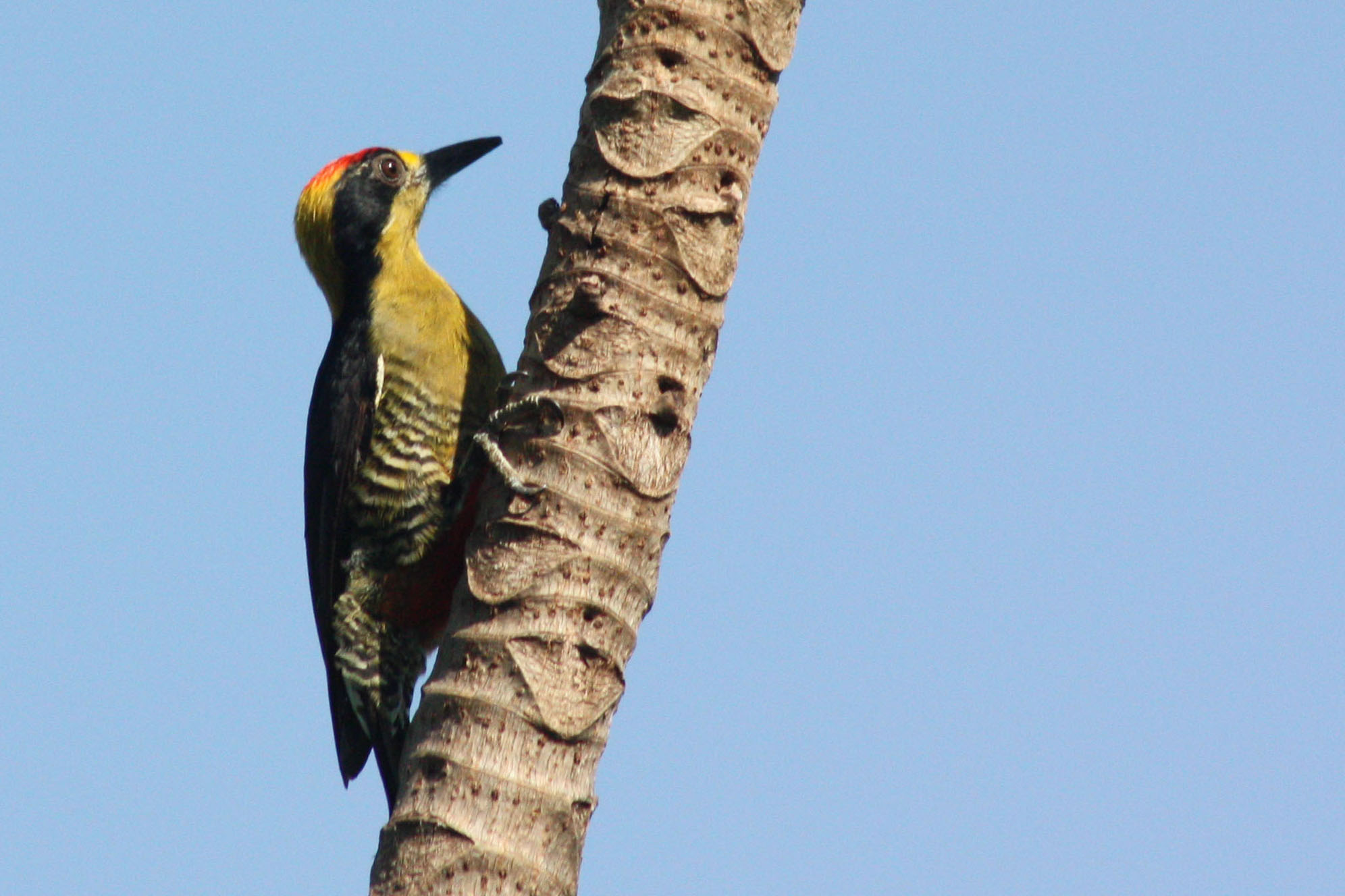 Golden-naped woodpecker (Melanerpes chrysauchen), male, OSA Peninsula, Costa Rica